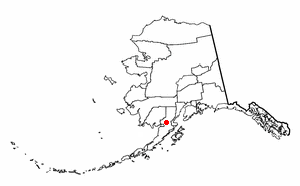 Adapted from Wikipedia's AK borough maps by Seth Ilys.